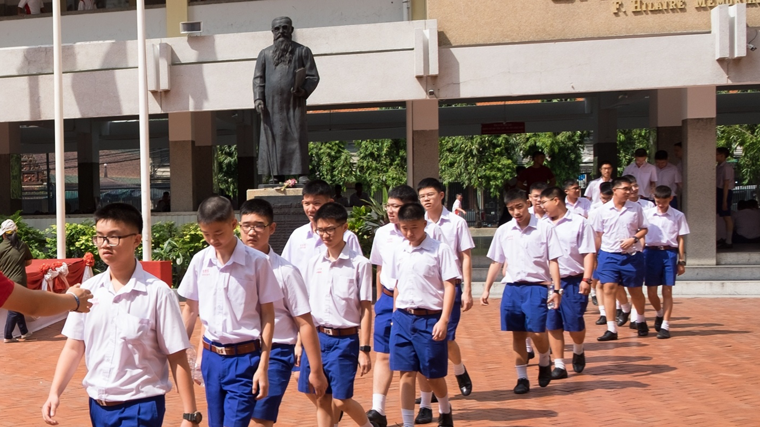 Thai male students of lower secondary level